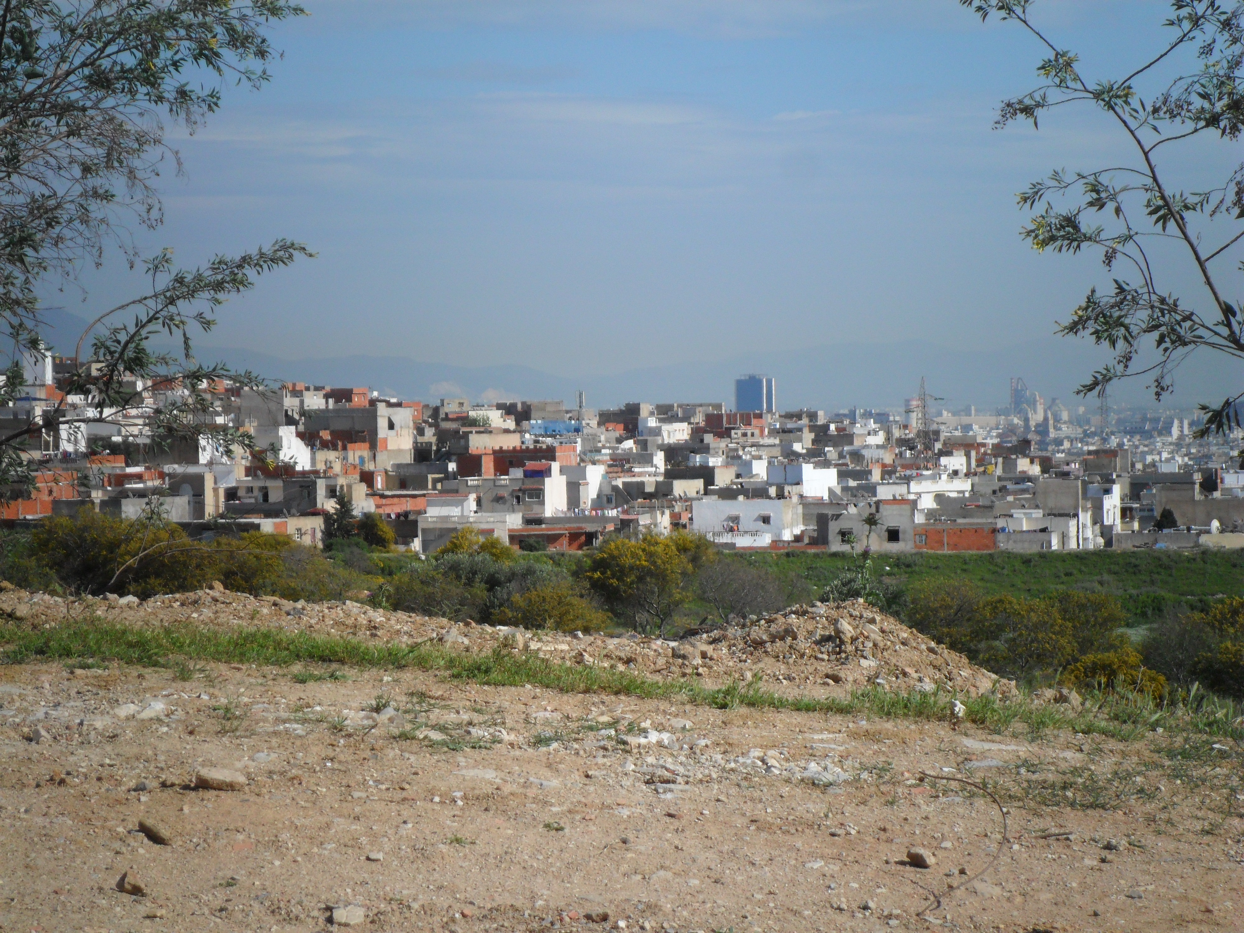 Jebel Lahmar neighborhood, Tunis